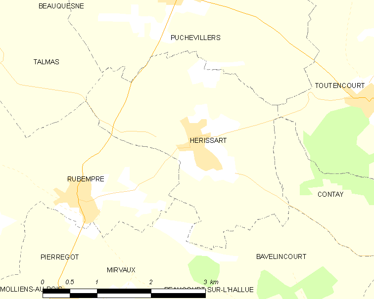 Map of French municipality Hérissart